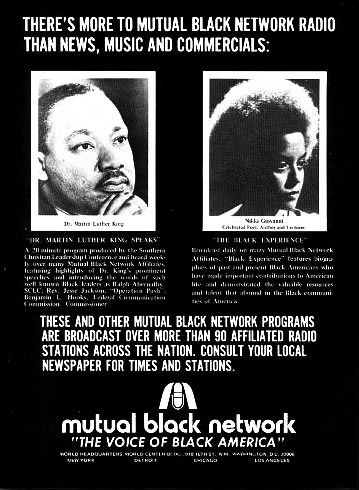 Low-resolution reproduction of newspaper advertisement for the Mutual Broadcasting System's Mutual Black Network, featuring Dr. Martin Luther King Jr. and Nikki Giovanni, 1974